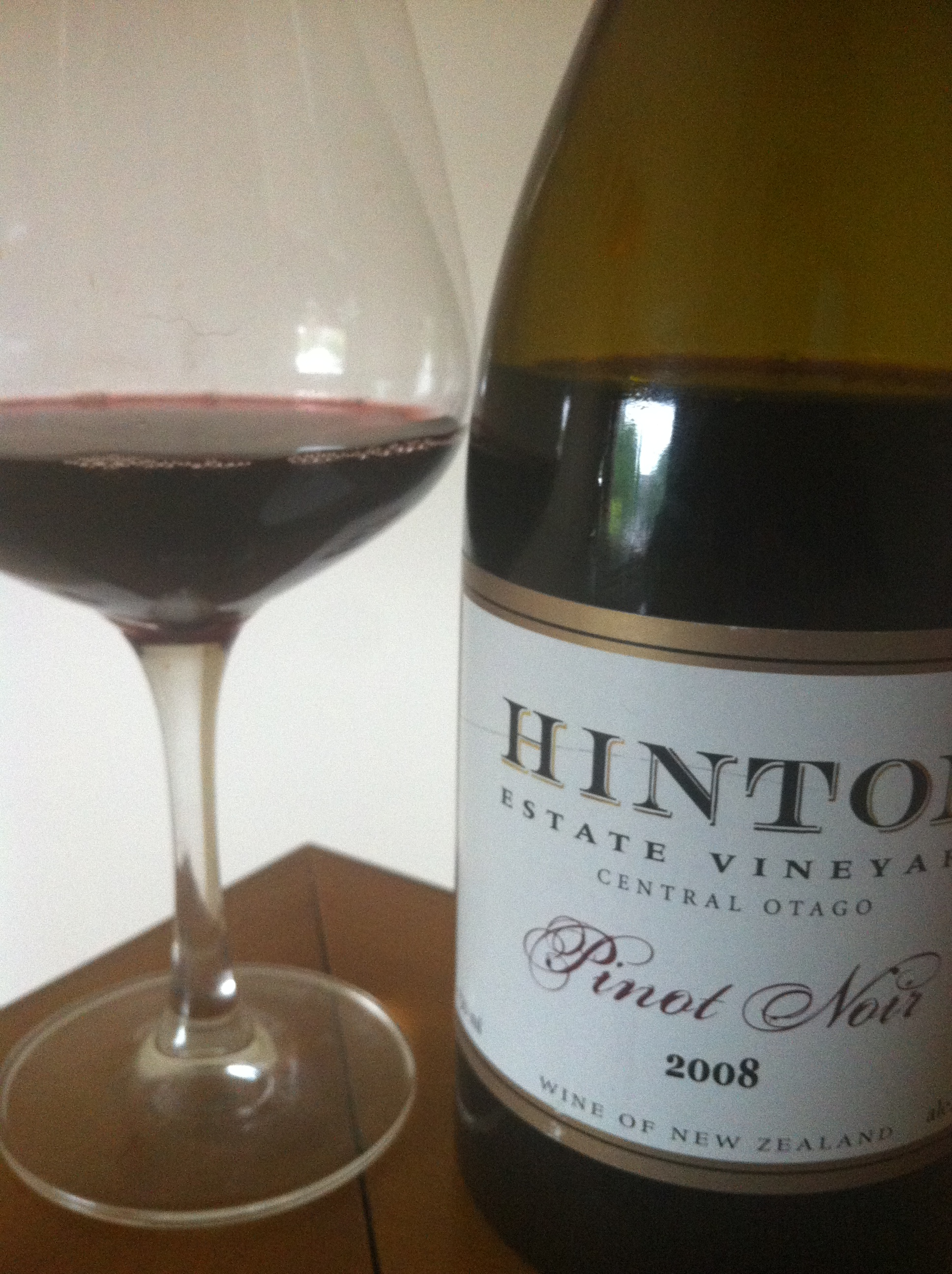 New Zealand Pinot noir from the Central Otago region